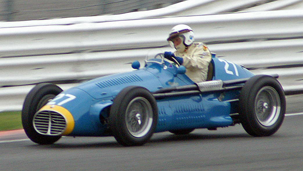 Silverstone Classic 2009